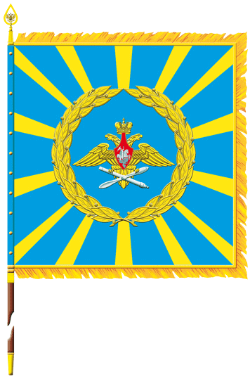 Standard of Chief of the Russian Air Force , Штандарт главнокомандующего Военно-воздушными силами Учрежден приказом Министра обороны Российской Федерации от 13 августа 2004 г. № 240 «О военных геральдических знаках Военно-воздушных сил». Полотнище штандарта квадратное, белого цвета. В центре каждой стороны полотнища в медальоне голубого цвета – средняя эмблема Военно-воздушных сил. Медальон окаймлен золотым венком из лавровых листьев. От центра к кромкам каждой стороны полотнища расходятся 14 расширяющихся желтых лучей, ширина каждого из которых у кромок полотнища составляет 1/12 его стороны. К боковым кромкам полотнища примыкают по четыре луча, к верхней и нижней кромкам – по три. Ширина венка равна 2/3 ширины полотнища. Ширина средней эмблемы Военно-воздушных сил равна 1/2 ширины полотнища. Размер стороны полотнища (без бахромы) – 110 см.